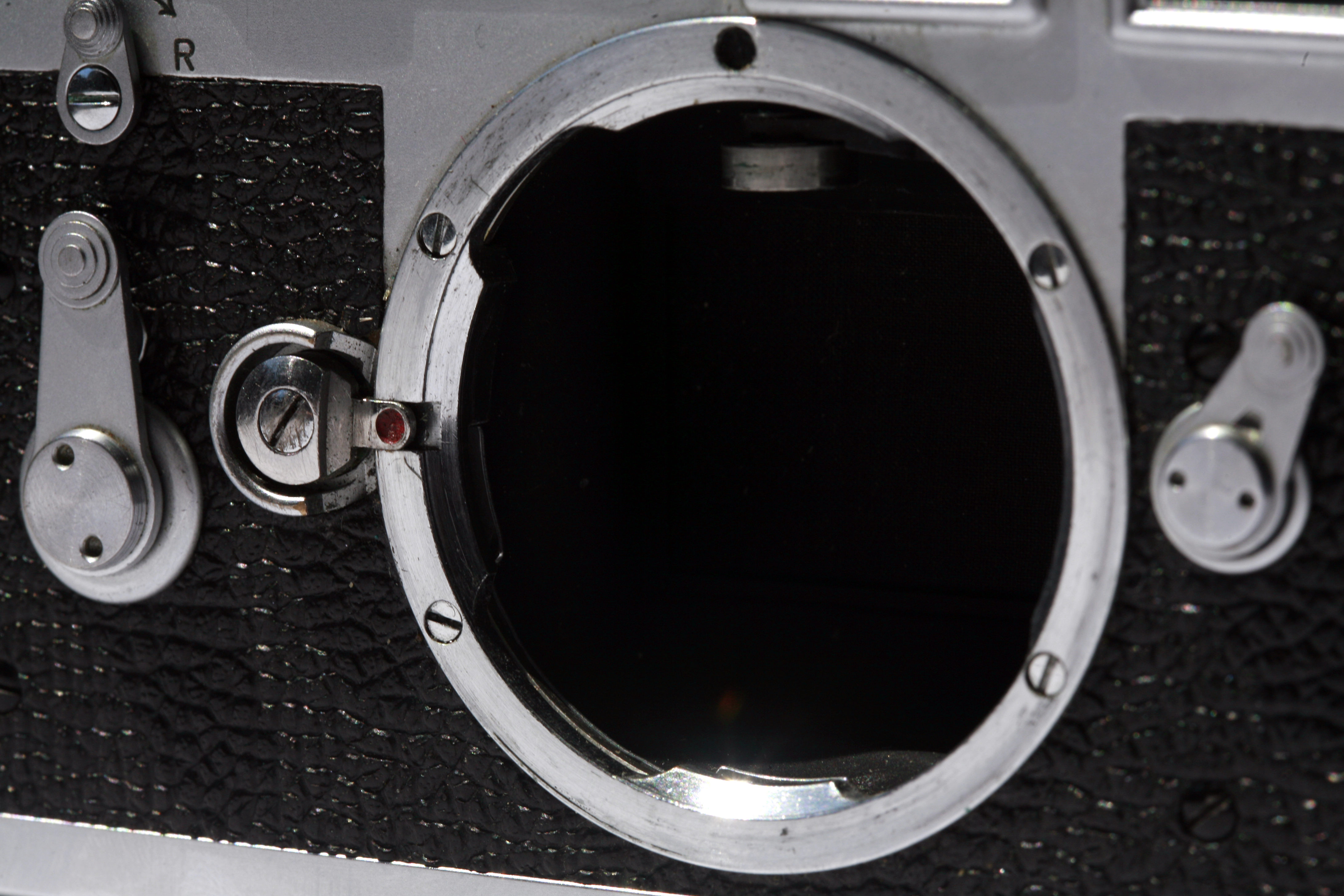 Leica M3